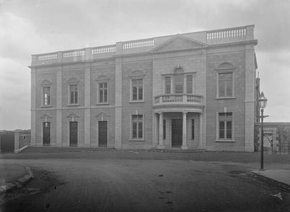 Robert French was the chief photographer responsible for photographing three quarters of the Lawrence Collection, including this photograph which was taken circa 1865-1914 with contribution of William Lawrence.